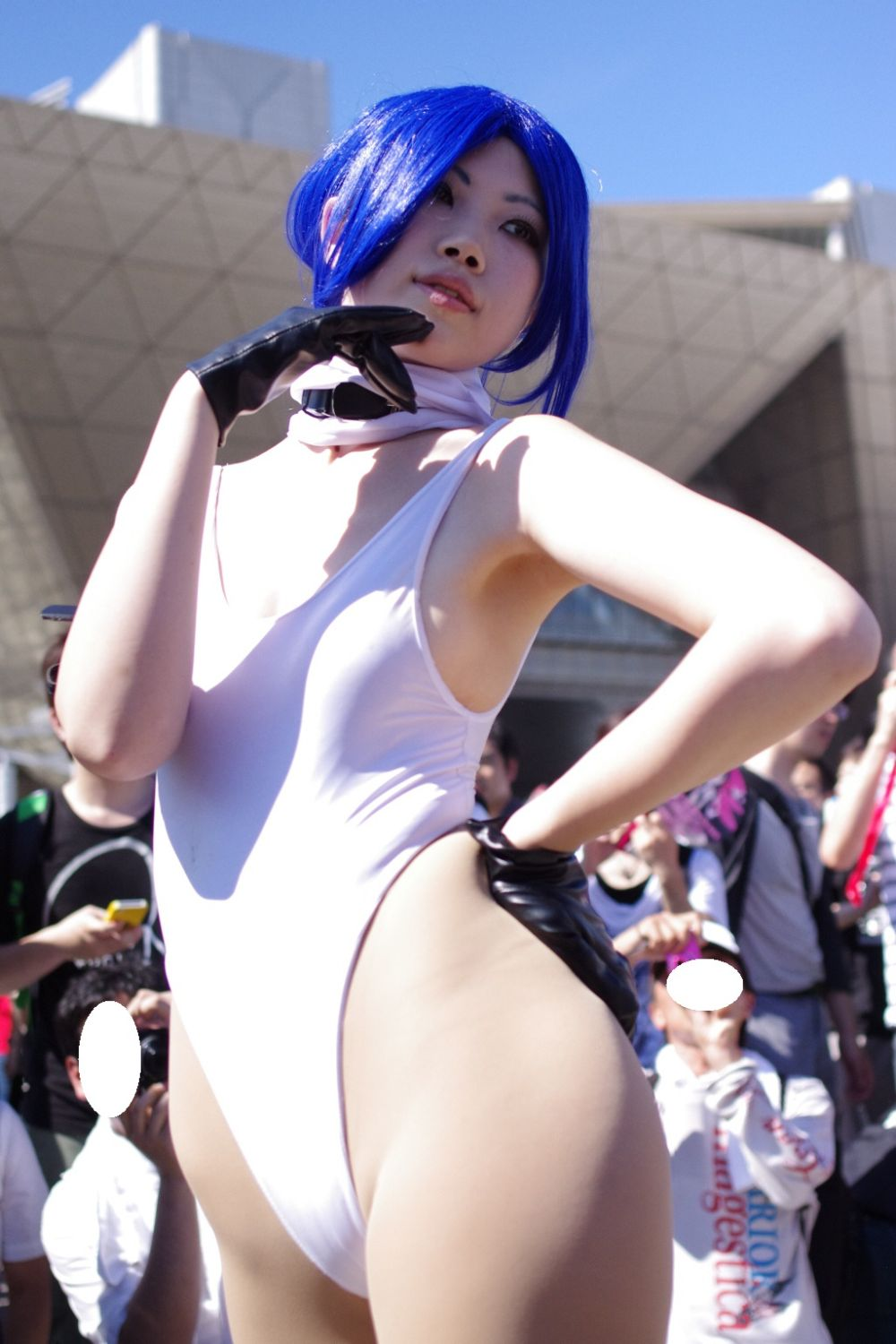 This photo was taken on August 12, 2012 using a Pentax K-r.